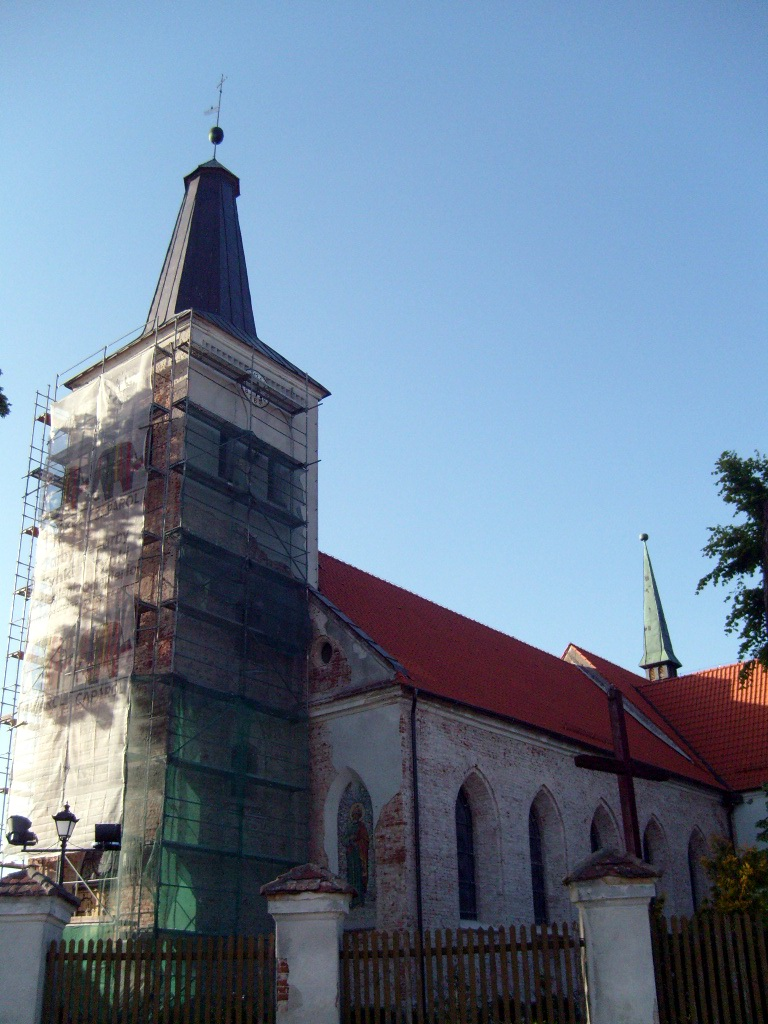 The church in Śliwice, Poland.